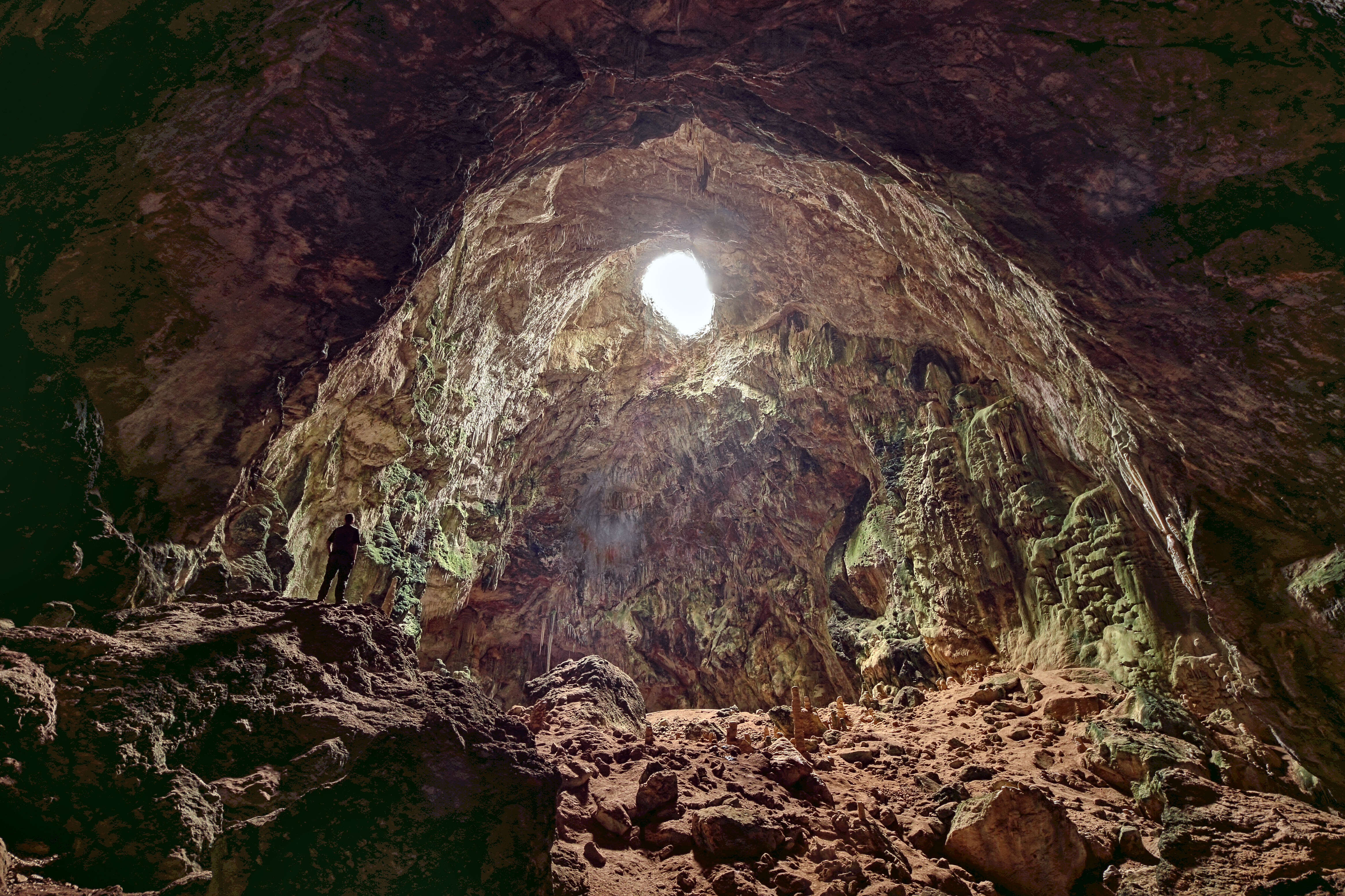 'Avenc de Son Pou' is a ca. 50 high cave dome in the valley of the'Torrent de Coanegra' between the places'Orient' and'Santa Maria del Camí'.